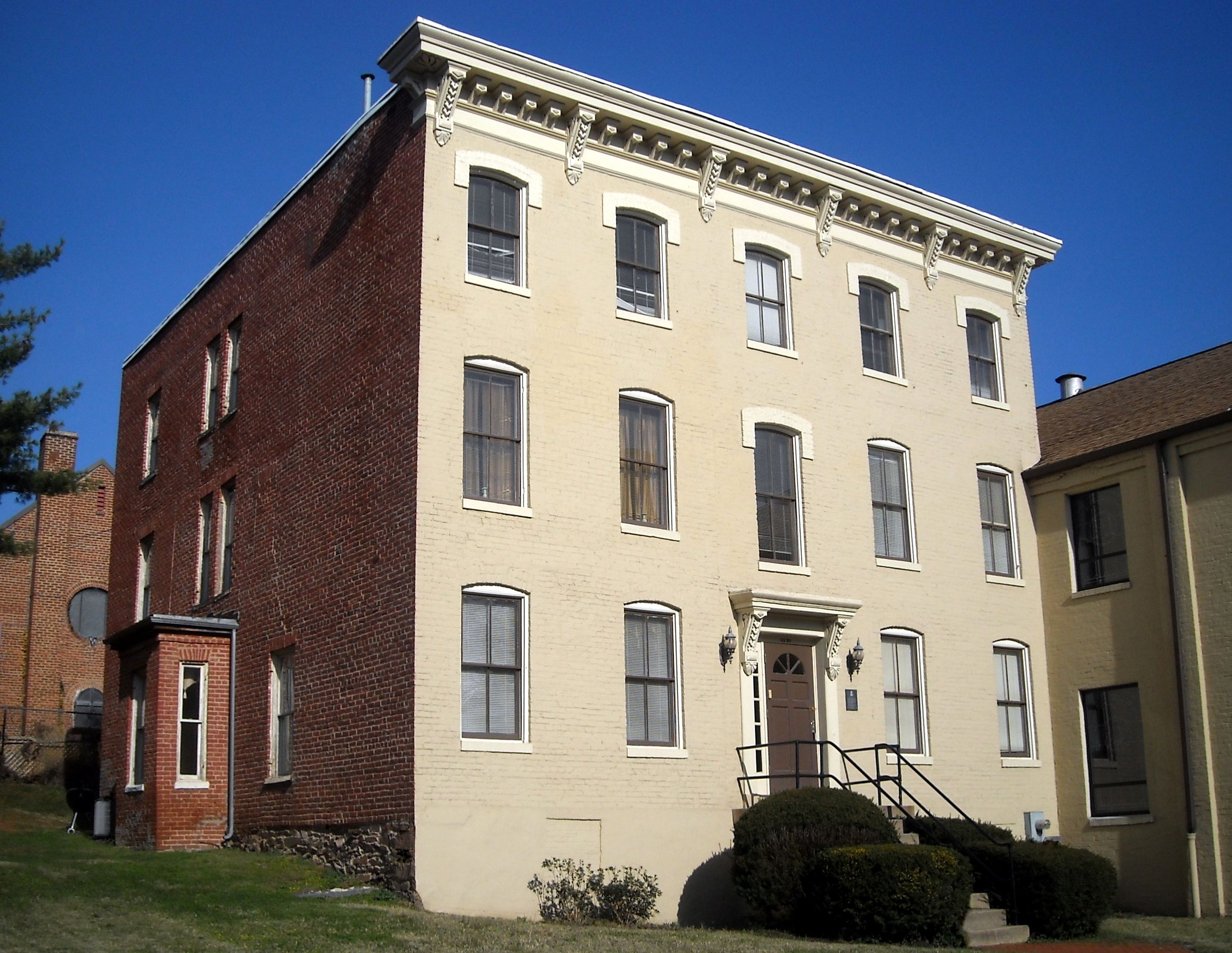 Alexander Memorial Baptist Church (est. 1908), located at 2709 N Street, N.W., in the Georgetown neighborhood of Washington, D.C. The Alexander Memorial Baptist Church (built 1910) and the adjacent Parish Hall (built 1867) are designated as contributing properties to the Georgetown Historic District, a National Historic Landmark listed on the National Register of Historic Places in 1967. The Parish Hall (pictured), located at 2715 N Street, N.W. (historically known as 18 Gay Street), is the former home of astronomer Asaph Hall, his wife, abolitionist and mathematician Angeline Stickney, and their four children: Asaph Hall, Jr., director of the Detroit Observatory; Samuel Hall; Angelo Hall, a Unitarian minister; and Percival Hall, the second president of Gallaudet University.